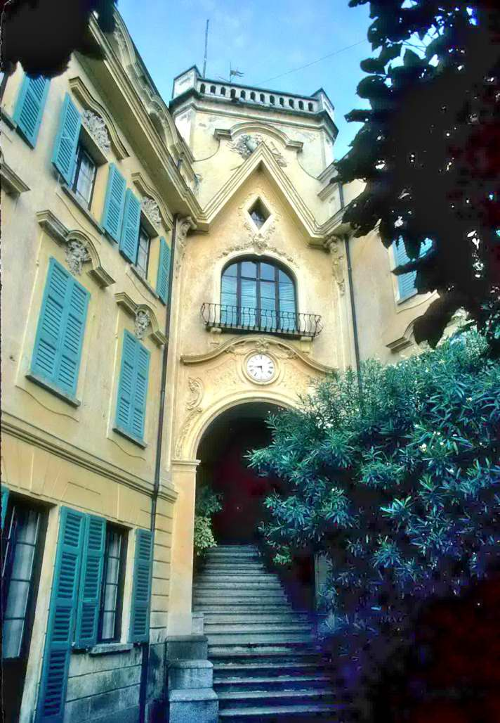 Casa Camuzzi, Montagnola (Collina d'Oro), Switzerland